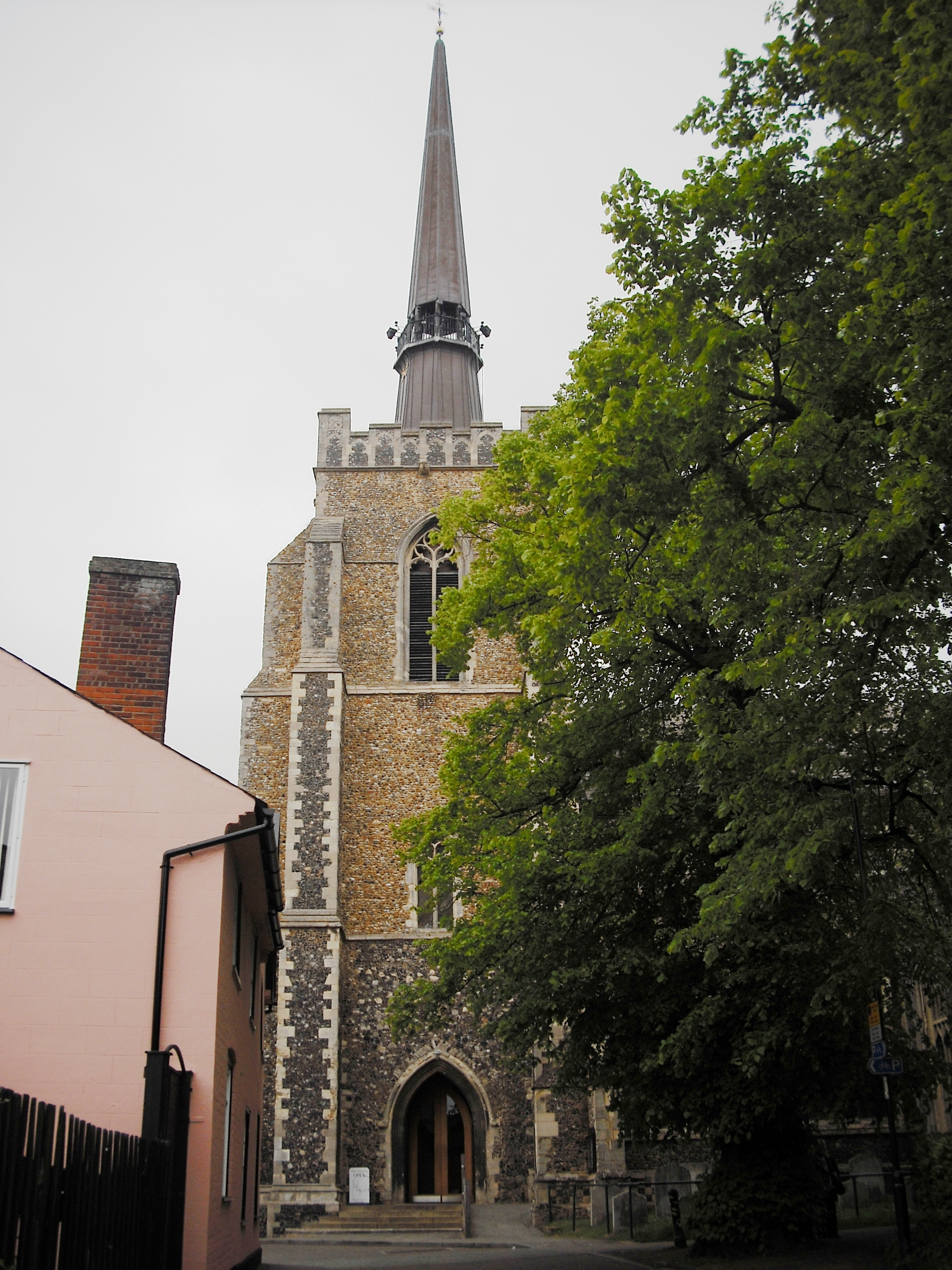 File:St Peter and St Mary's church, Stowmarket, Suffolk - tower and spire